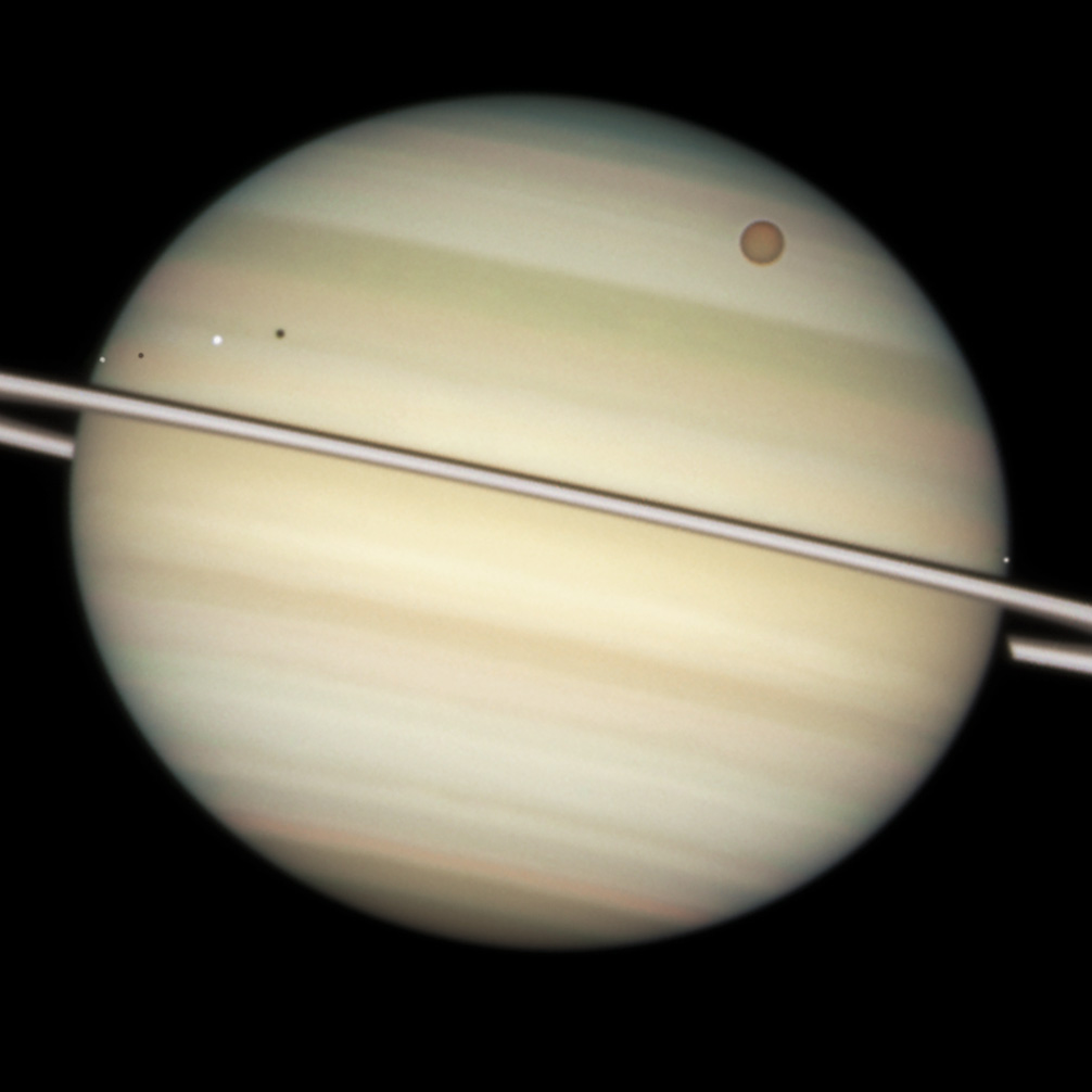 Quadruple Saturn moon transit captured by Hubble Space Telescope. From left to right: Enceladus, Dione, Titan (largest) and Mimas.